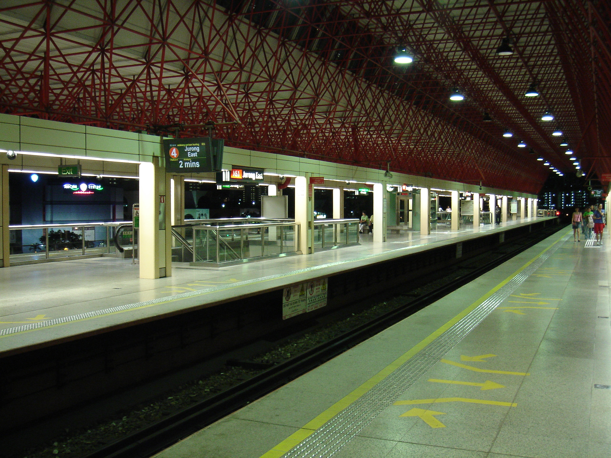 Jurong East MRT Station, interchange station between East-West Line and North-South Line (terminus). The middle platform is where North-South line trains terminate and reverse.